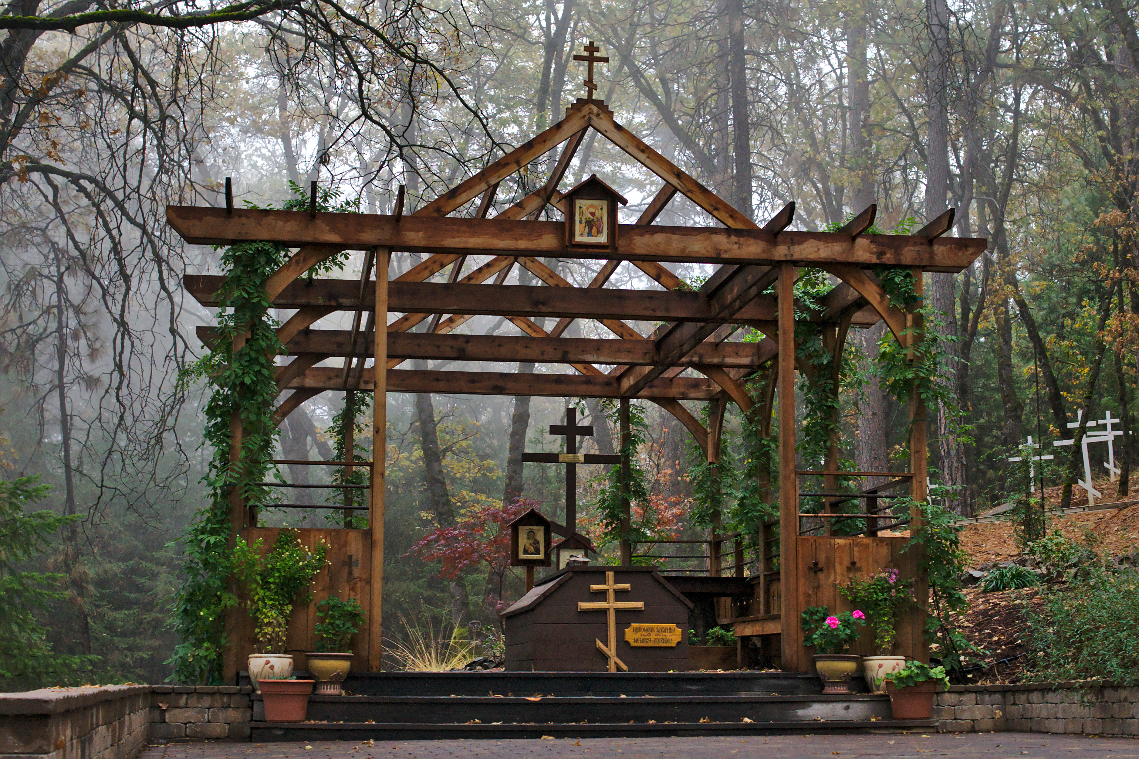 Grave of Seraphim Rose at the Saint Herman of Alaska Monastery, Platina, California, US